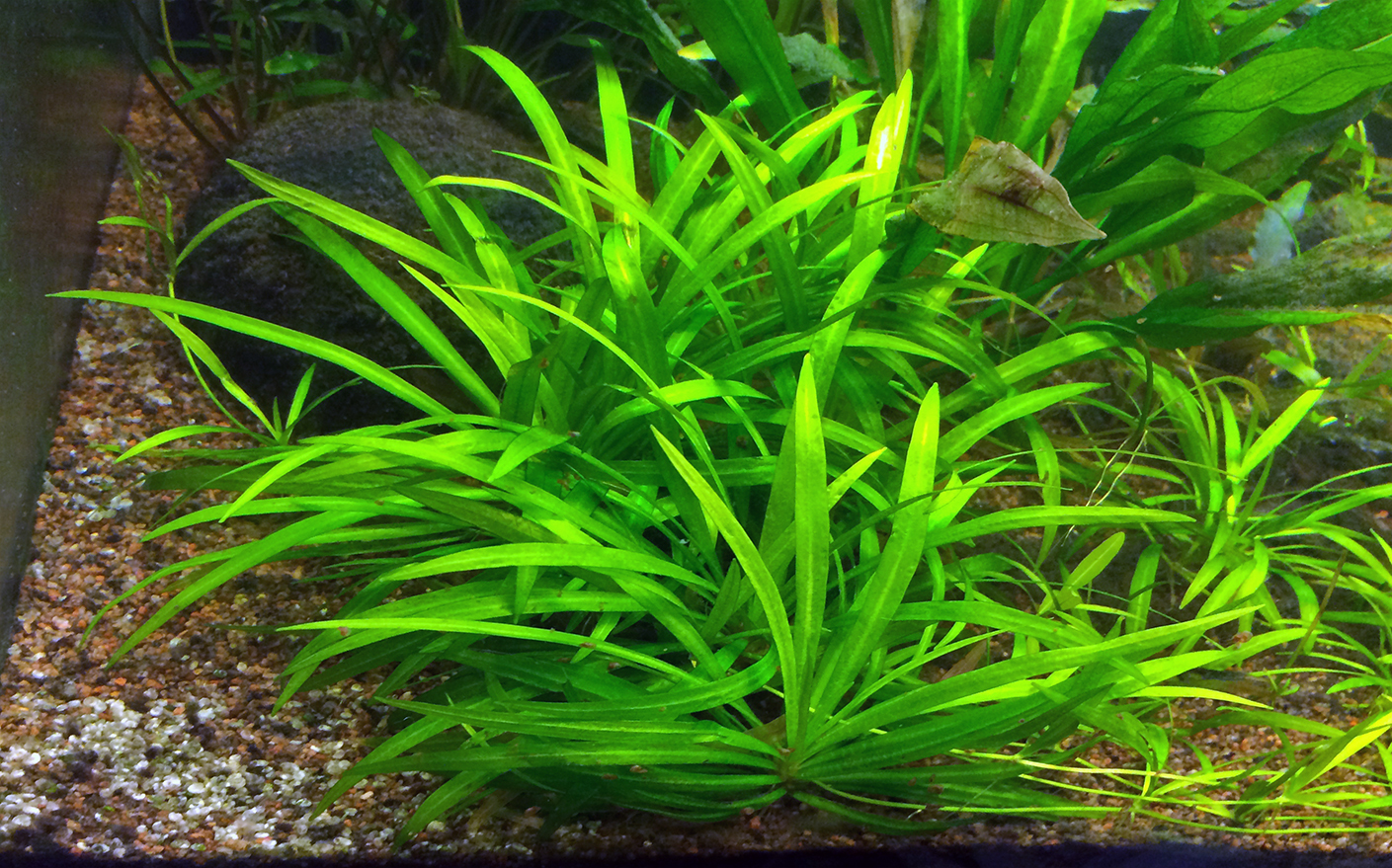 Small Sword Plant, Echinodorus quadricostatus var. magdalenensis (Fassett) Rataj, photographed in a Swedish aquarium. In the wild it is distributed throughout Central and South America.